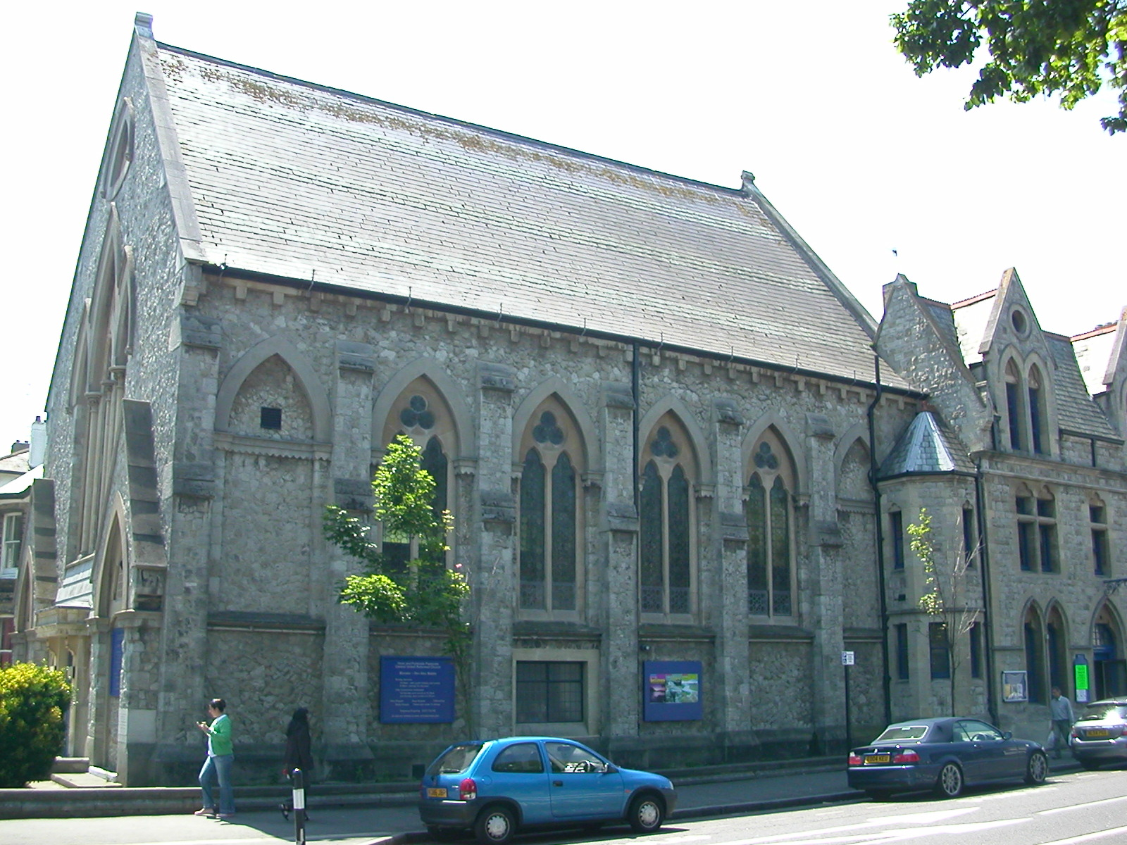 Hove Central United Reformed Church, Blatchington Road, looking south. Photographed on 2nd June 2007.